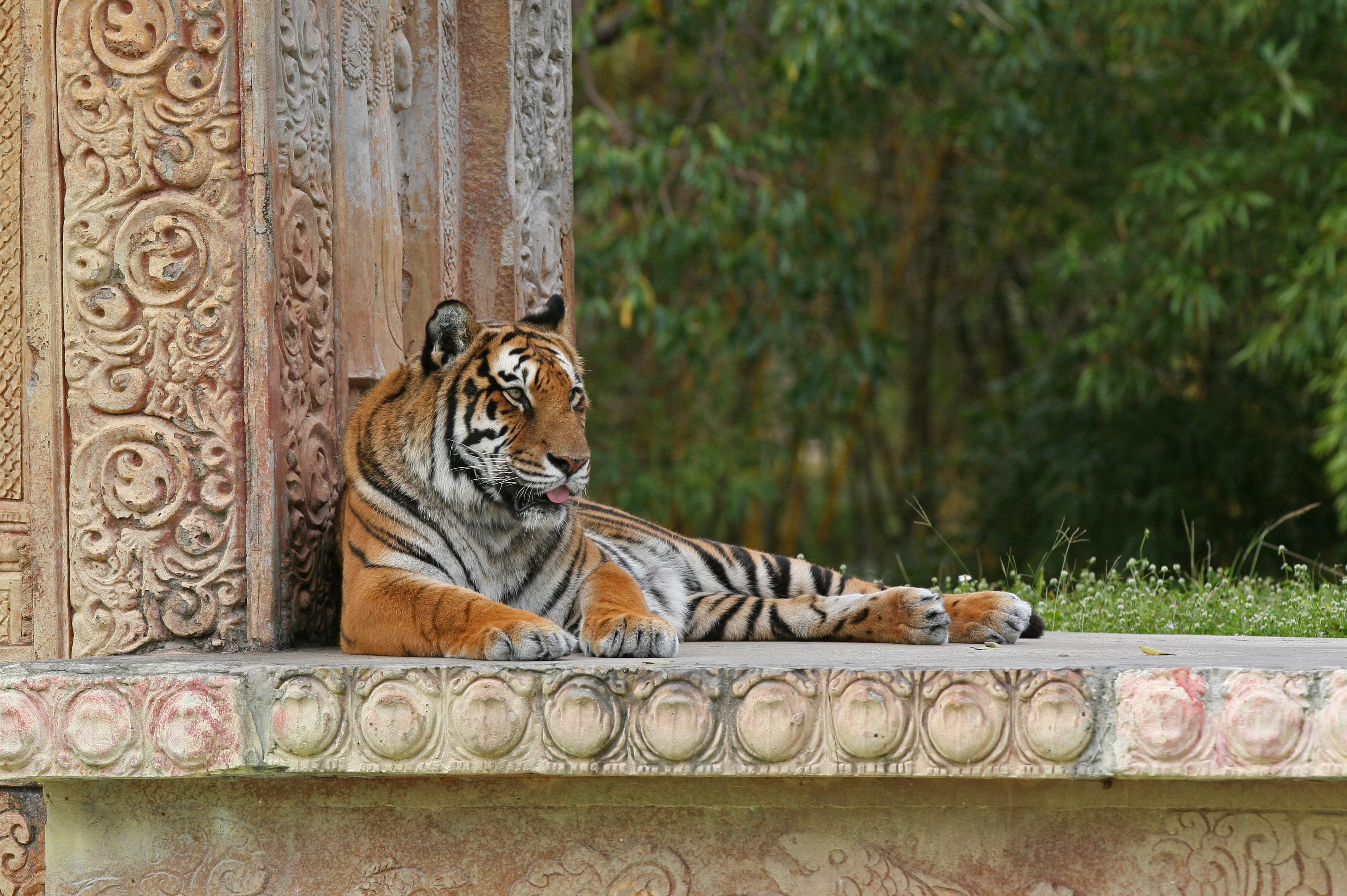 Tiger at Miami Zoo.